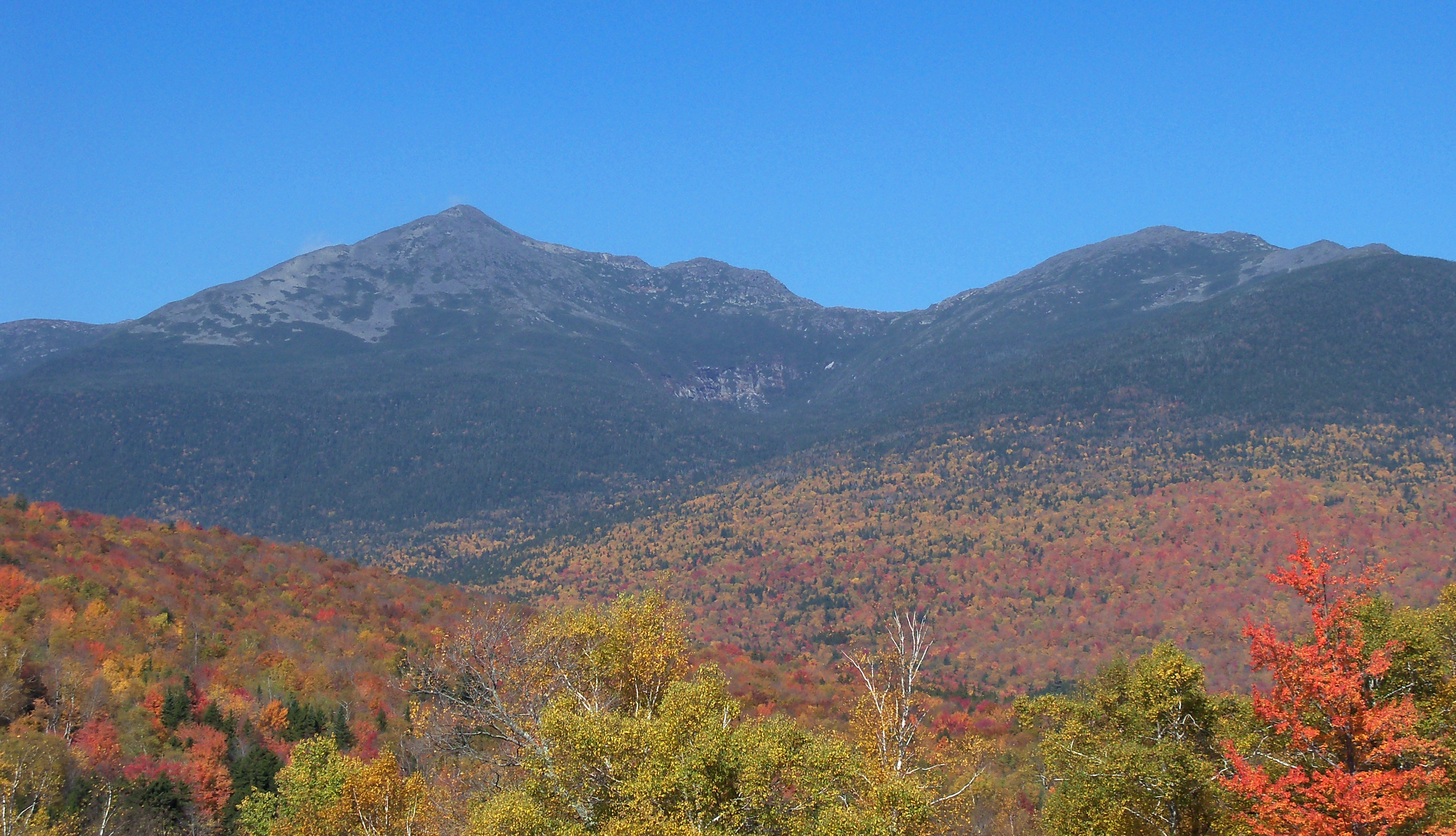 Presidential Range in the White Mountains in New Hampshire, USA.